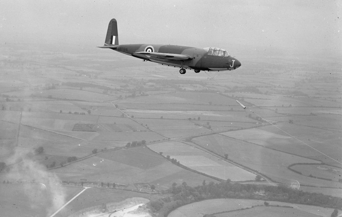 General Aircraft Hotspur Mk 11